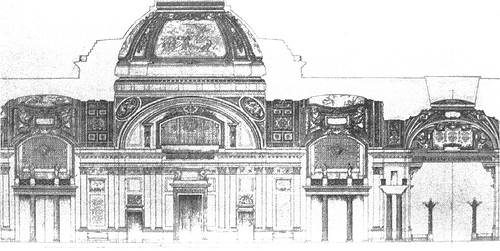 Palacio Legislativo Federal. Project. Henri Jean Émile Bénard